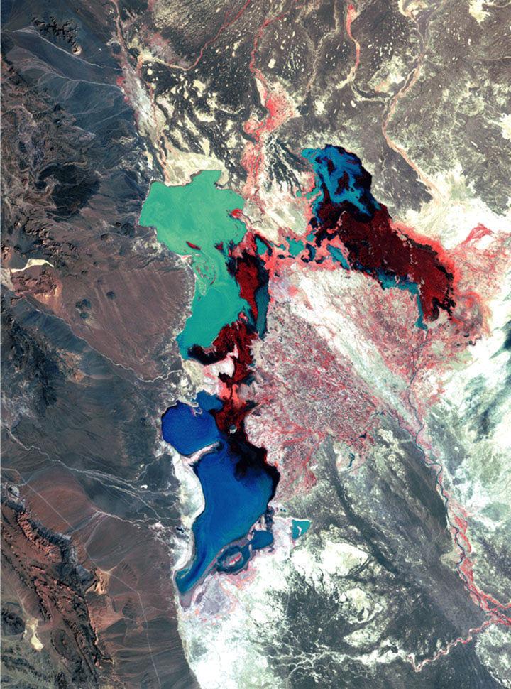 In 1976, the Hamoun wetlands were still thriving. Winding through the Dasht-e Mārgow (Margo desert), the Helmand forms a dendritic delta and dissipates in a series of “hamouns” (lagoons). Numerous seasonal rivers also converge into endorheic Sīstān basin. Water flows in a circular fashion through a string of lakes starting with Hāmūn-e Puzak in the northeast, sweeping into Hāmūn-e Sabari and finally overflows into Hāmūn-e Helman in southwest. Dense reed beds appear as dark red, while tamarisk thicket fringing the margins of the upper lakes shows up as pink. Peppered bright red patches represent irrigated agriculture, mainly wheat and barley. The lakes flood to an average depth of half a meter denoted by lighter shades of blue, while dark blue to black indicates deeper waters not exceeding four meters. Landsat MSS false colour composite created from a combination of the near-infrared, green and blue bands (bands 4, 2, and 1)